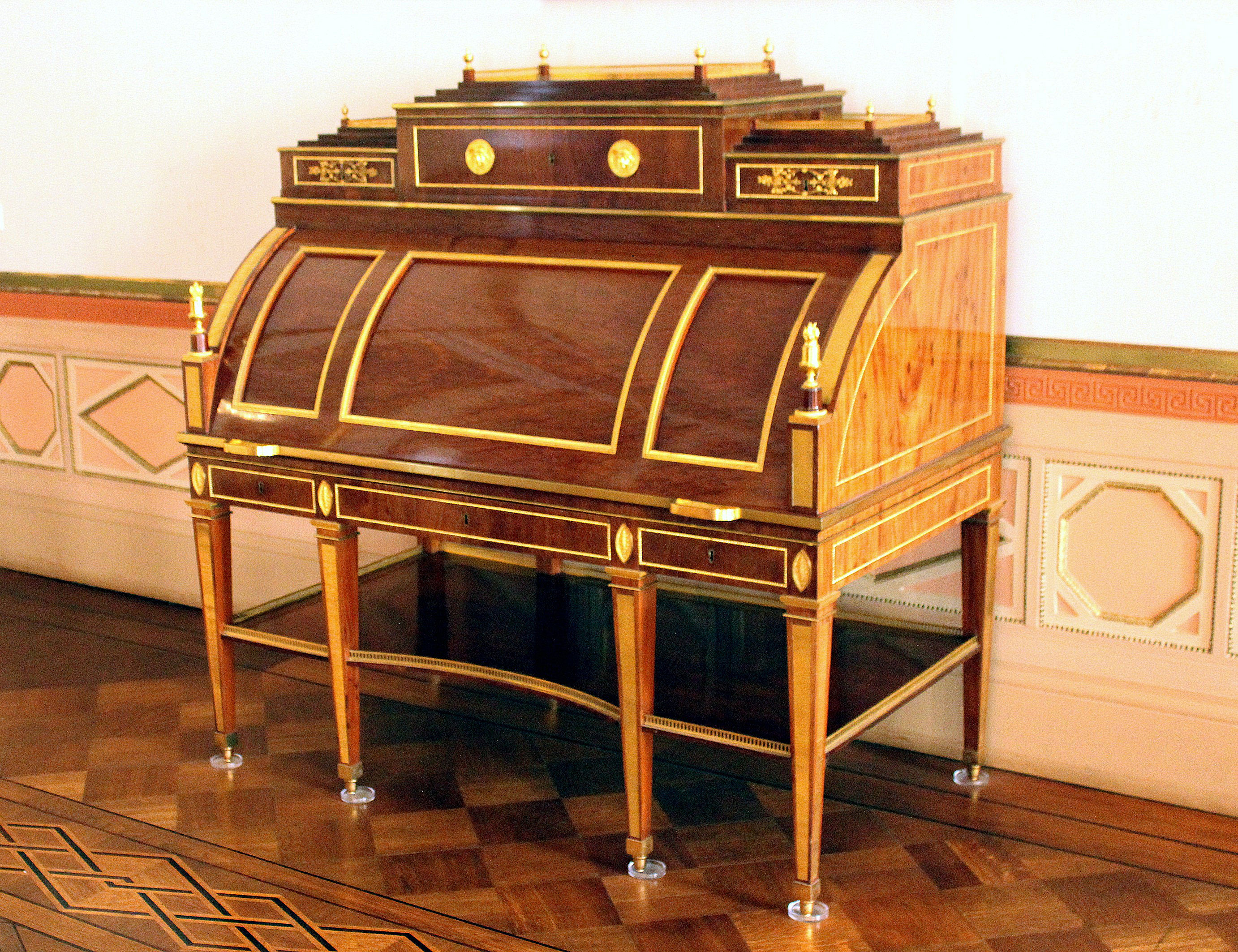 Weimar, Schlossmuseum, David Roentgen, cylinder desk